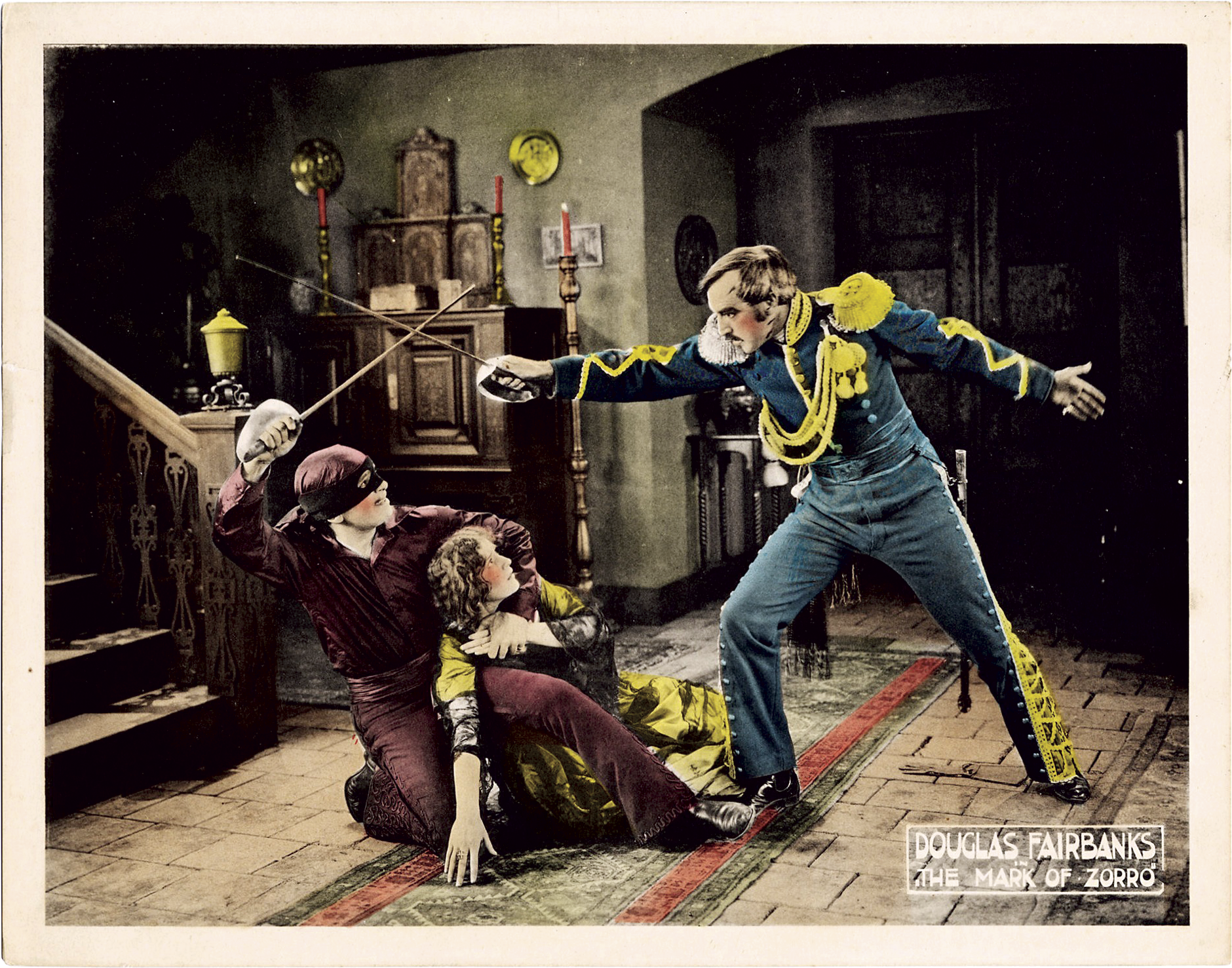 Lobby card for the American adventure romance film The Mark Of Zorro (1920).